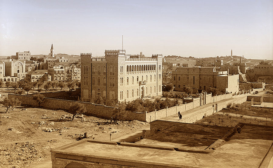 Newer Jerusalem and suburbs. The Jesuit seminary near King David Hotel.